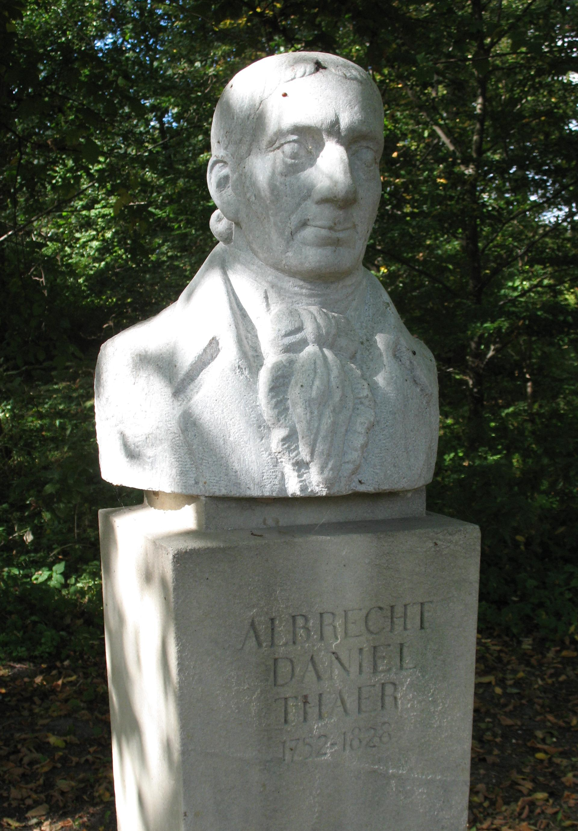 Thaer memorial in Möglin in Brandenburg, Germany